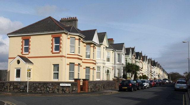 Chestnut Road, Peverell Seen from what was once a five-way junction with Outland Road (the A386) and Weston Park Road; but vehicle access to Chestnut Road is now not possible from this western end. The initial pair of semis on this northern side are succeeded by a terrace of 26 properties.